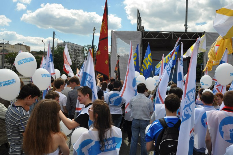 Митинг движения "Право на оружие", приуроченный к годовщине событий в Сагре